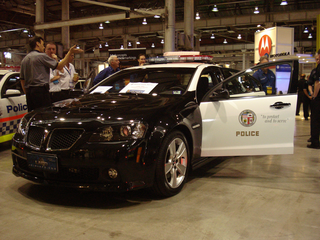 Prototype Pontiac G8 Los Angeles Police Department (LAPD) squad car. This is based on the US export version of the Australian made Holden Commodore. The vehicle is fitted with a large portrait format touch screen in the centre console, replacing the clutter of controls common in police vehicles. The car was unveiled at the APCOA 2009 Conference in Sydney, 2 March 2009. It was developed by National Safety Agency. Photo by Tom Worthington.